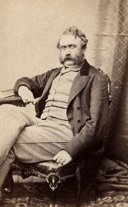 Sir William Arthur White by John Johnstone, 1863